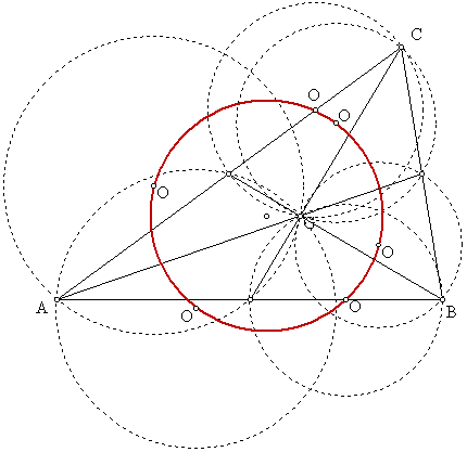 The van Lamoen circle of a triangle